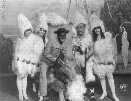 Publicity photograph of Al Jolson (in blackface) and other cast members of the stage musical Robinson Crusoe, Jr.